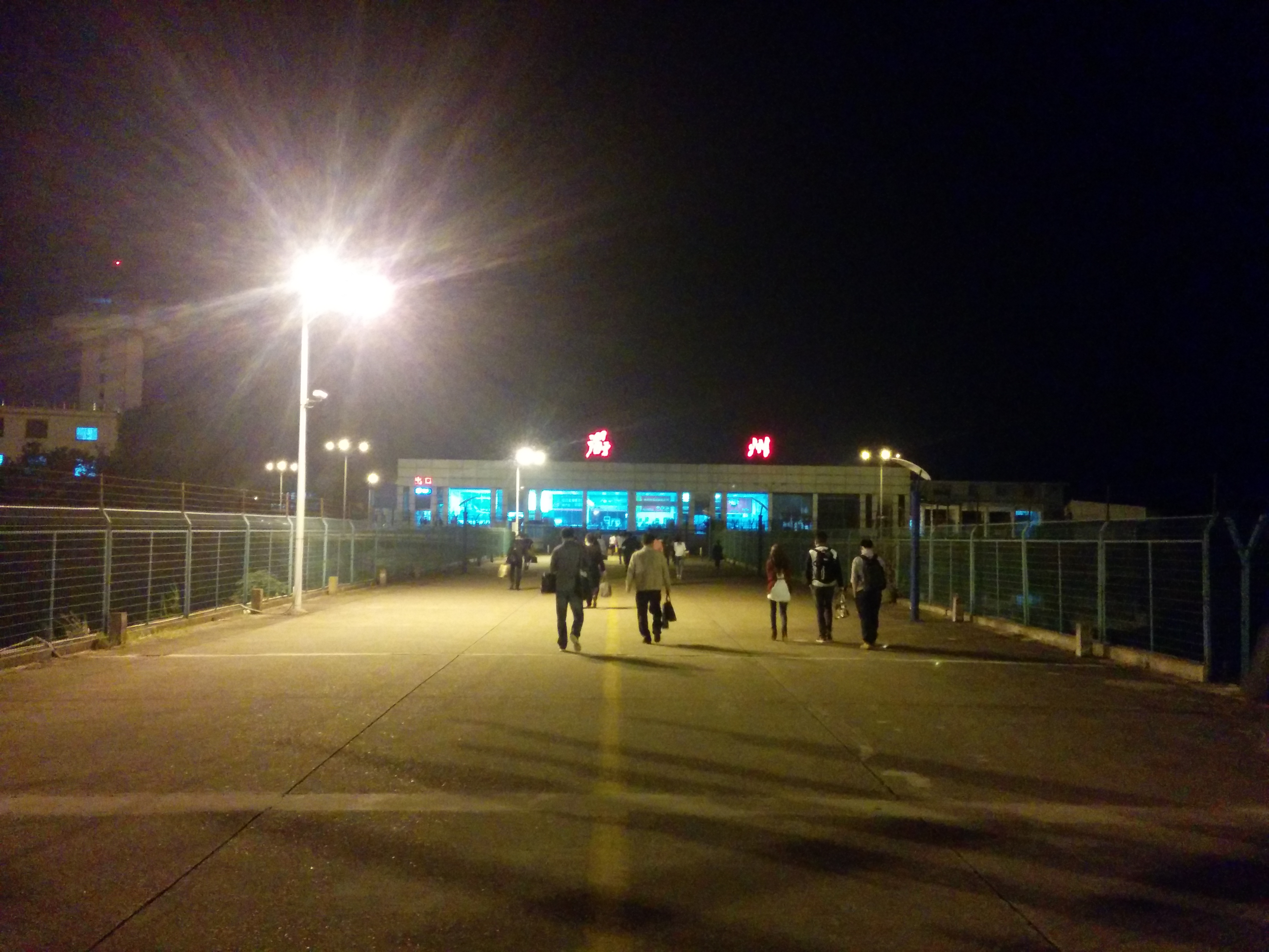 A long causeway separates the aircraft bays and the terminal building.